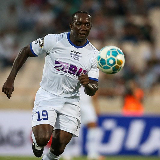 Dwight Yorke, a player of the world soccer stars team in Tehran for a charity football match in Iran.